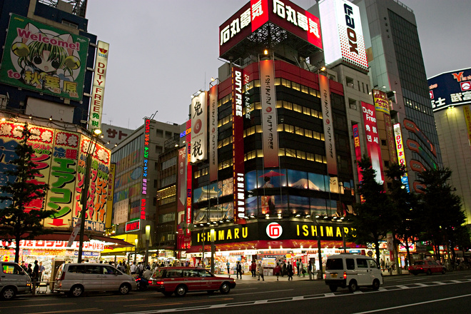 Akihabara Electric Town, Tokyo, Japan.